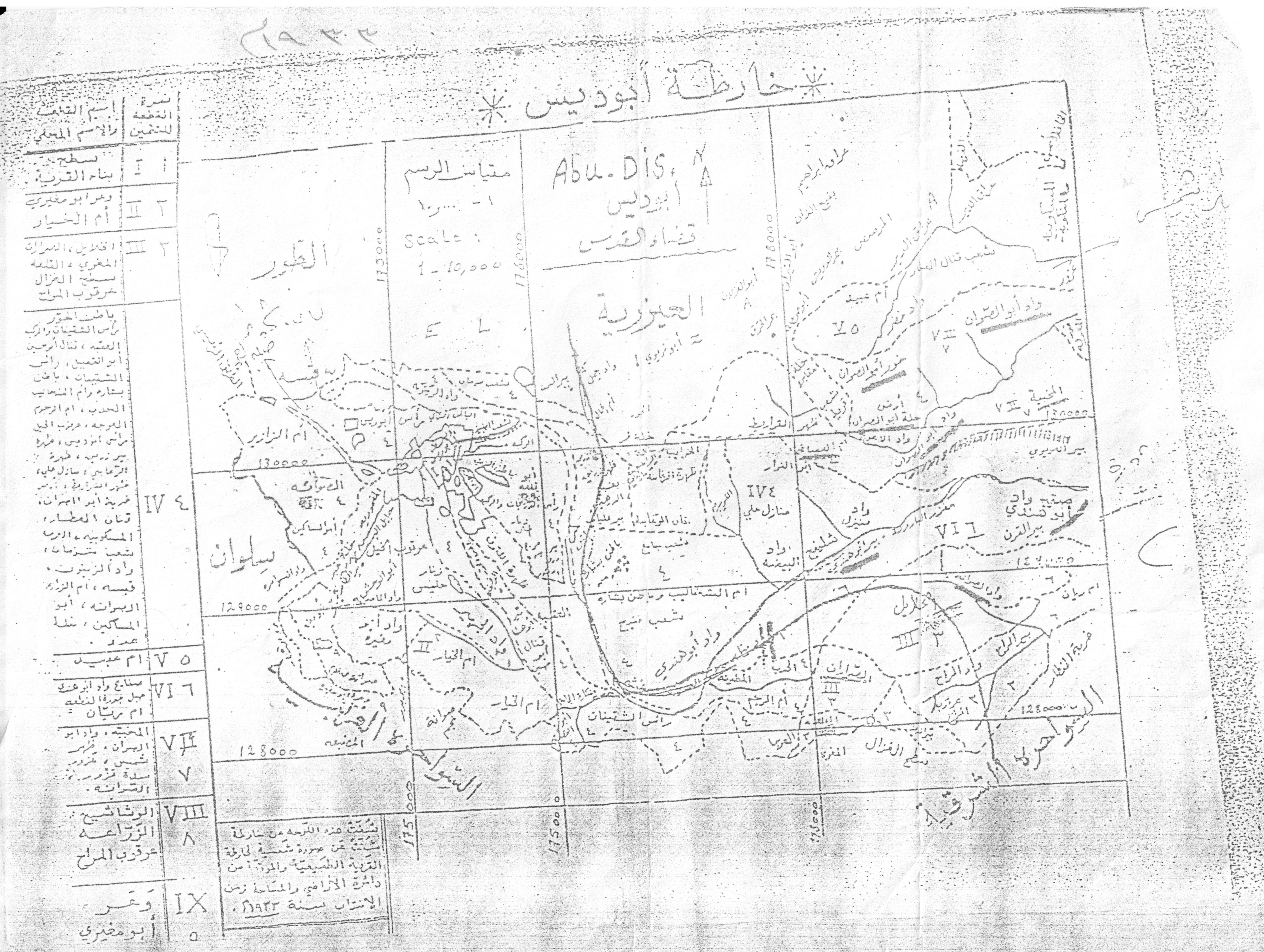 ِAbu-dies map , 1933 .